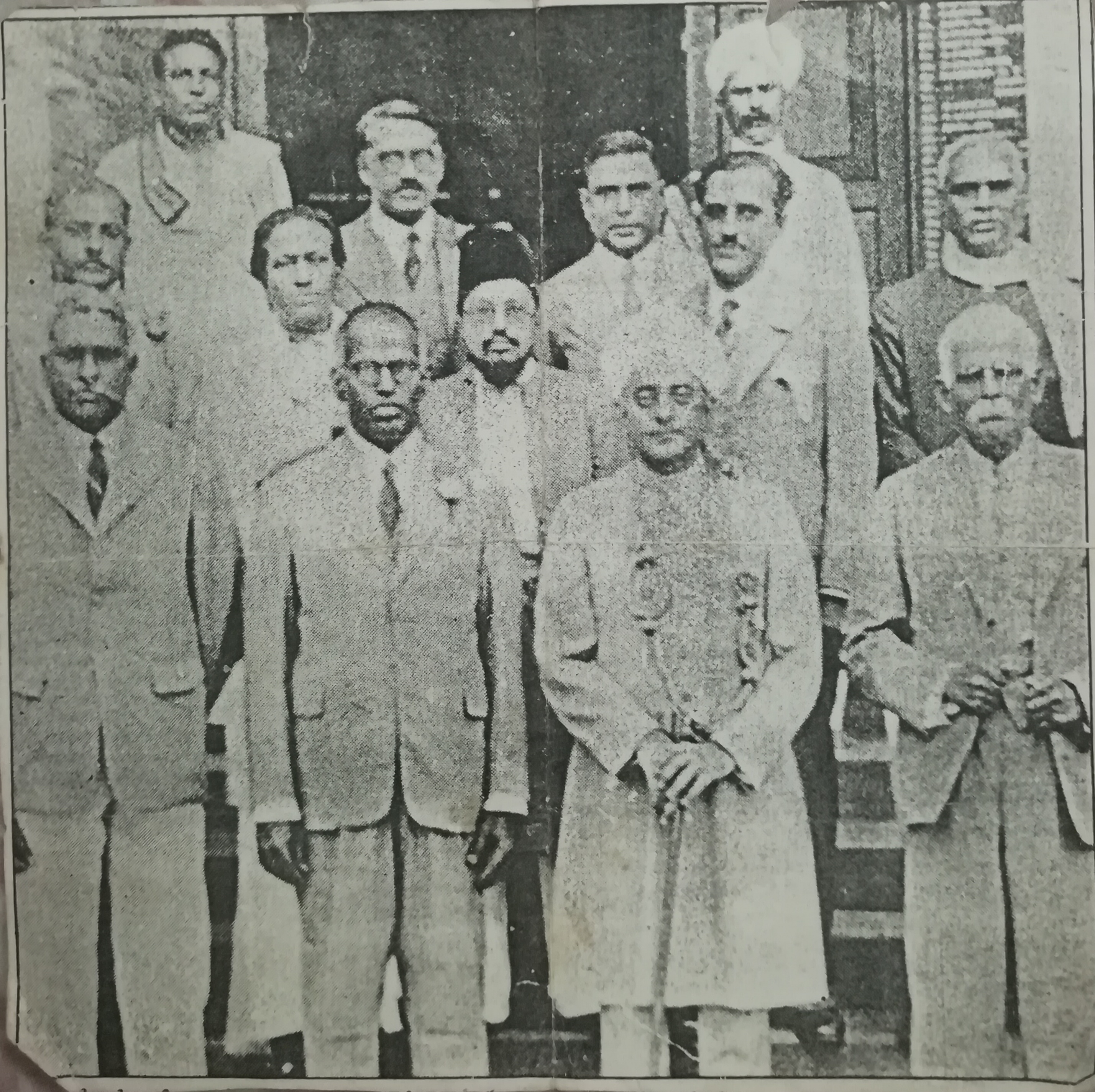 Directors of Travancore National and quilon bank with sir CP Ramaswamy iyer C.P. Matthen (MD), K. C. Mammen Mappillai, M. O. Thomas Vakkel Modisseril(Director)